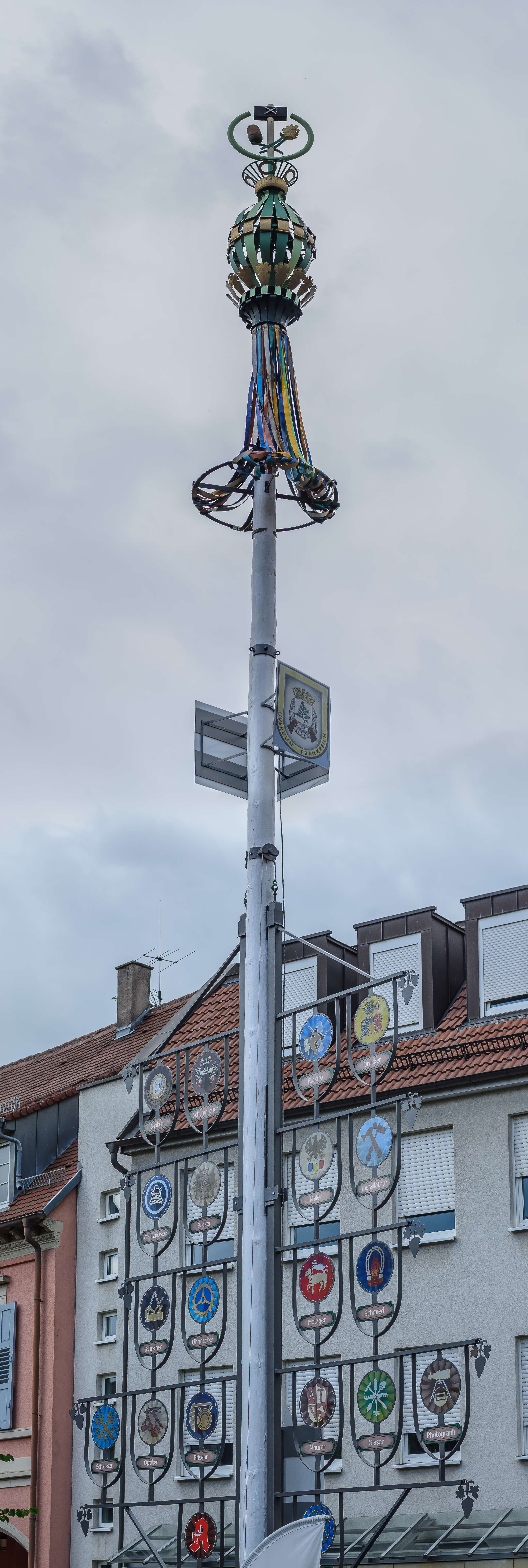 The Weingarten (Baden) Maibaum